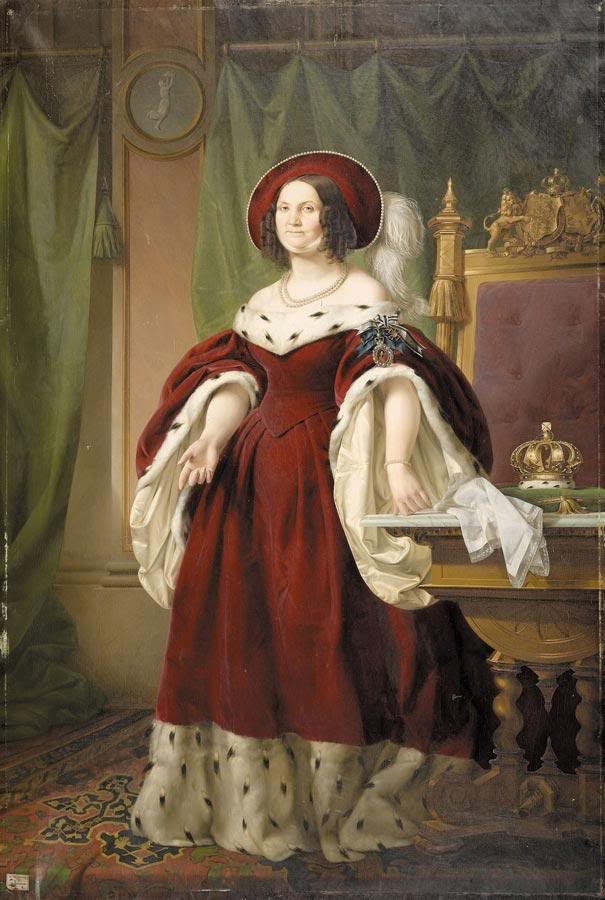 Frederica of Mecklenburg-Strelitz (1778-1841), Queen of Hannover